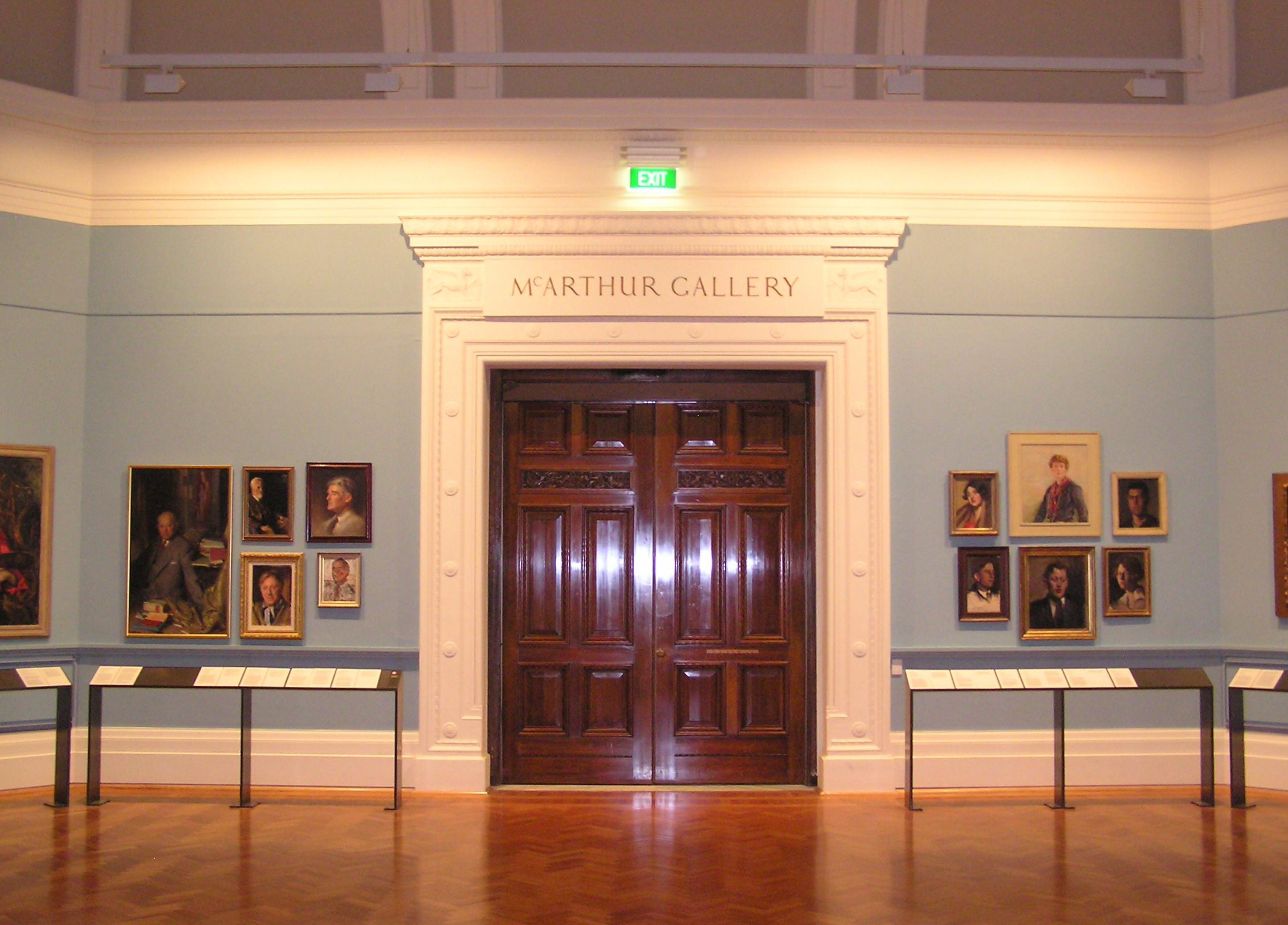 State Library of Victoria (McArthur Gallery)